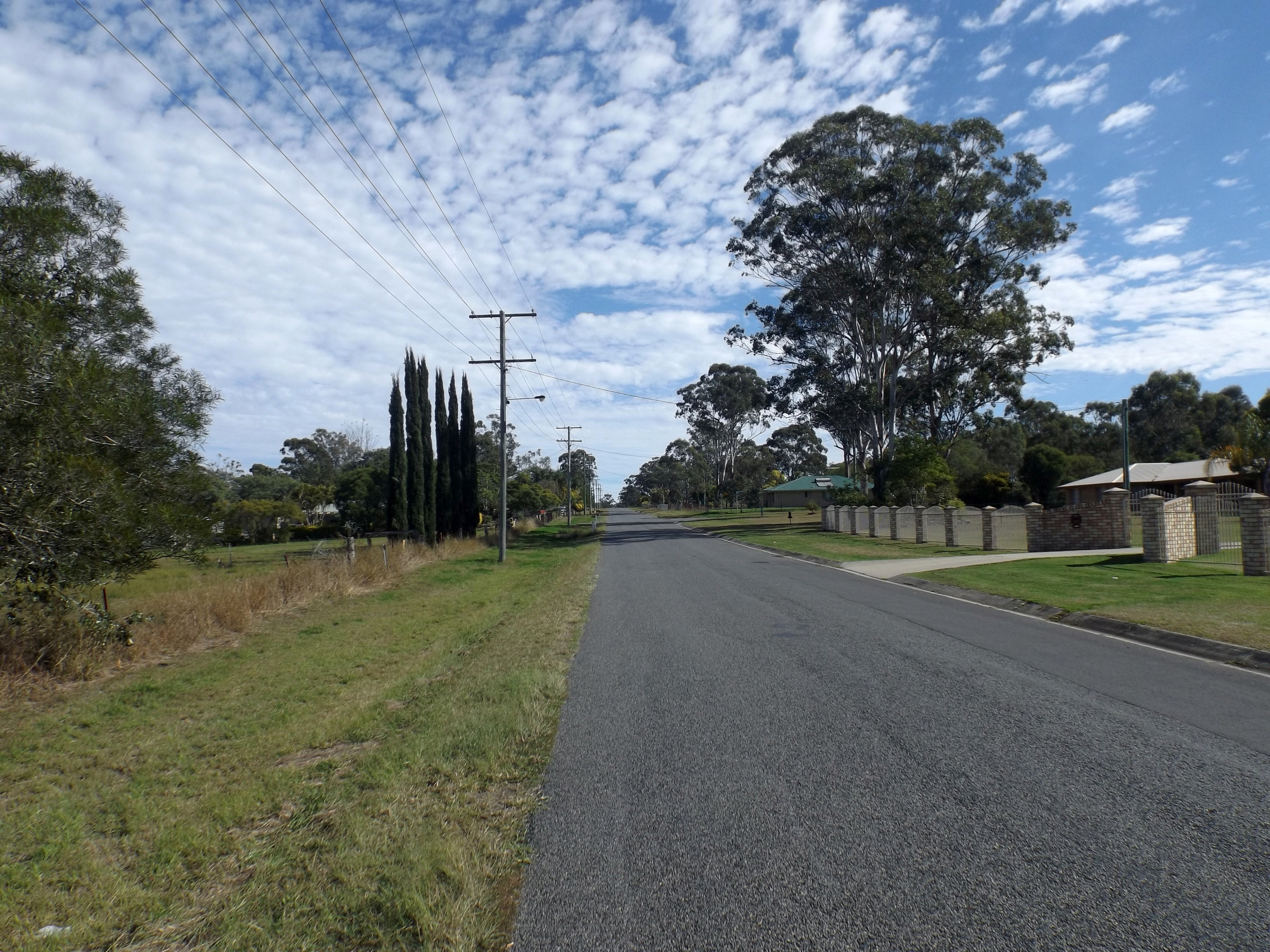 Photo of Elm Street at Walloon Ipswich, Queensland, Australia.